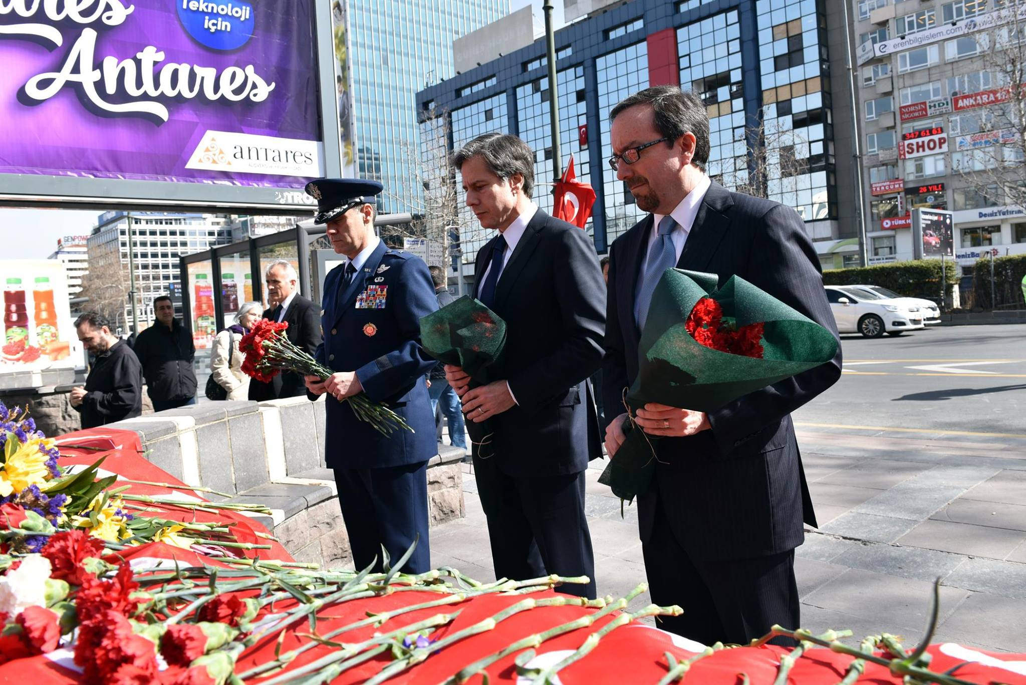 Deputy Secretary of State Antony "Tony" Blinken, U.S. Ambassador to Turkey John Bass, and Defense Attaché Brig. Gen. Marc Sasseville pay their respect to the victims of the March 13 Kizilay bombing in Ankara, Turkey, on March 23, 2016. [State Department photo/ Public Domain]